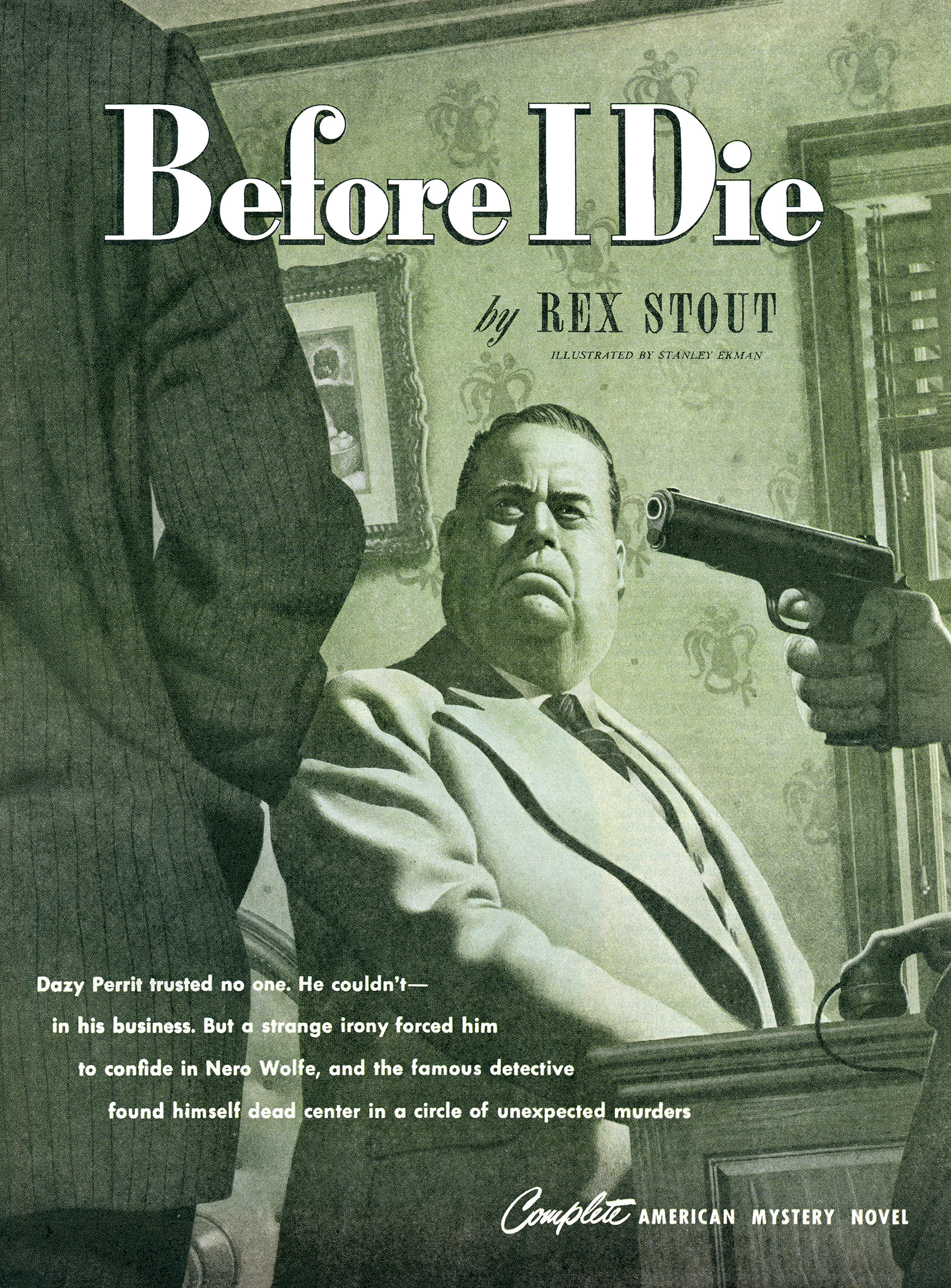 Lead illustration from The American Magazine printing of "Before I Die", a Nero Wolfe short story by Rex Stout